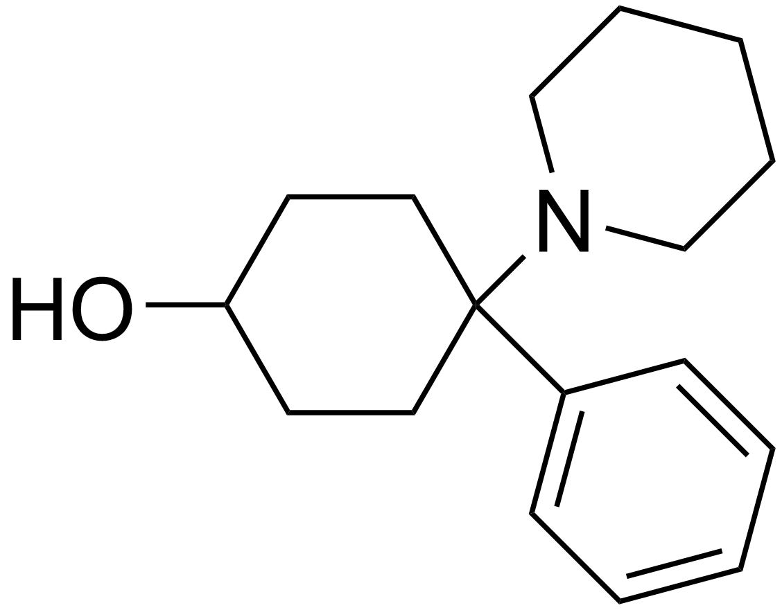 Chemical structure of 4-phenyl-4-(1-piperidinyl)cyclohexanol (PPC)